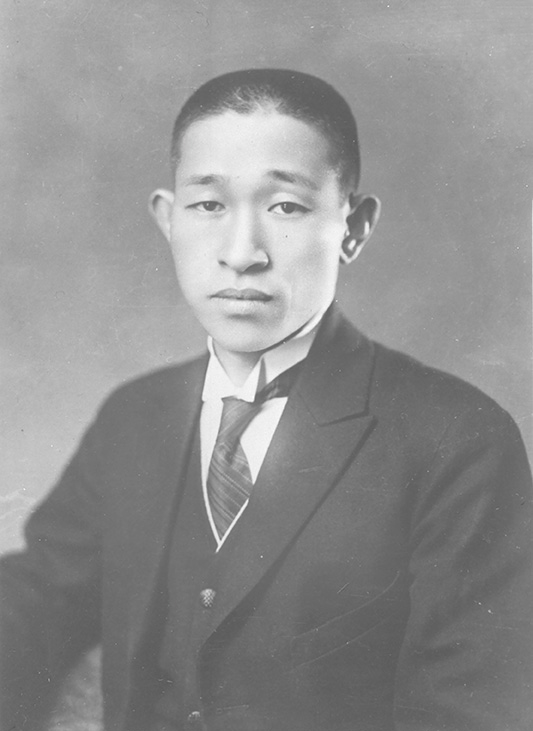 Formal portrait of Kōnosuke Matsushita in 1929.